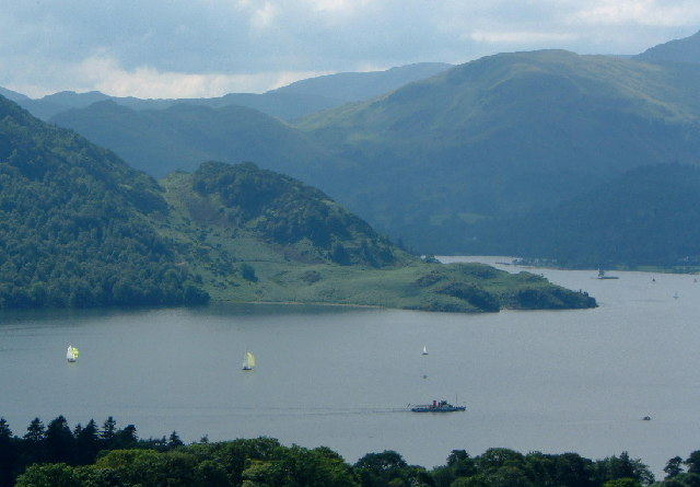 Ullswater, Silver Point. Ullswater is a great lake for sailing and has a regular ferry service operated by Ullswater Steamers